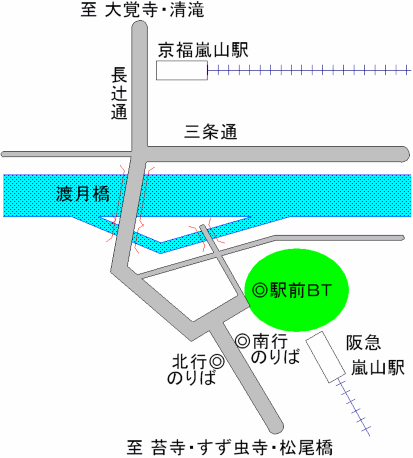 Bus stops in front of Hankyu Arashiyama station (Kyoto, Japan)